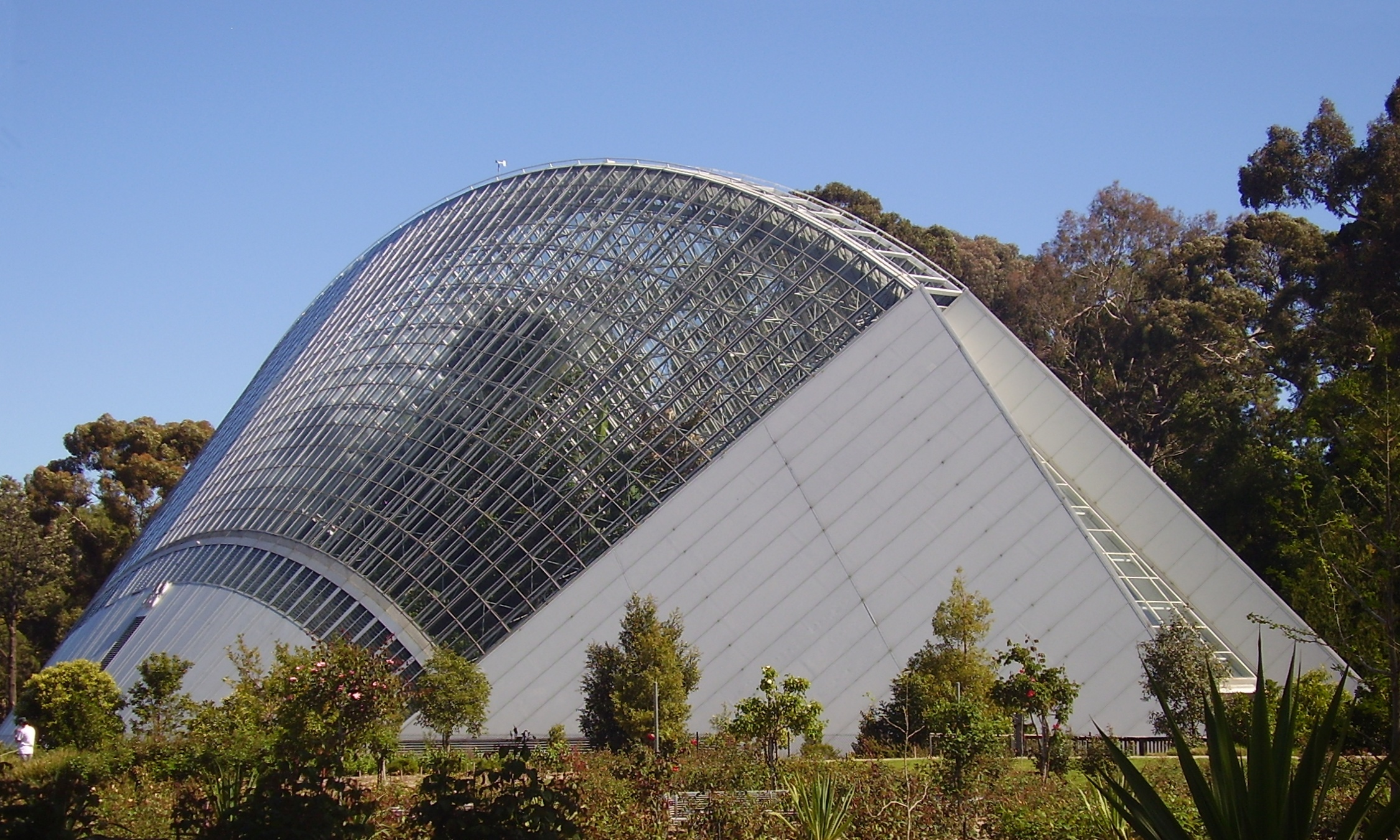 Bicentennial tropical conservatory in the Adelaide Botanic Gardens